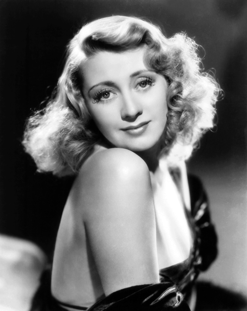 Actress Joan Blondell